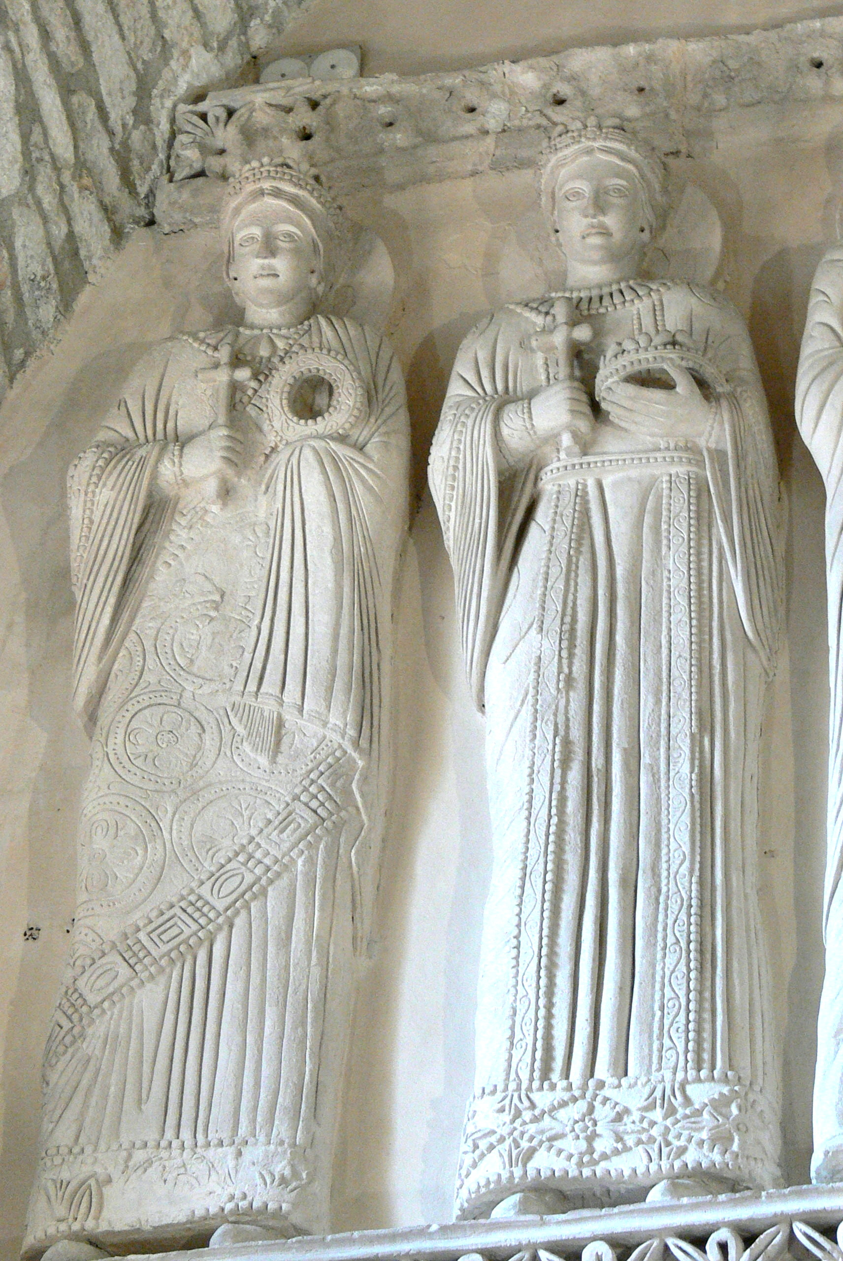 Cividale, Italy. Tempietto Longobardo - Western wall: Female crowned martyrs ( 8th century ).